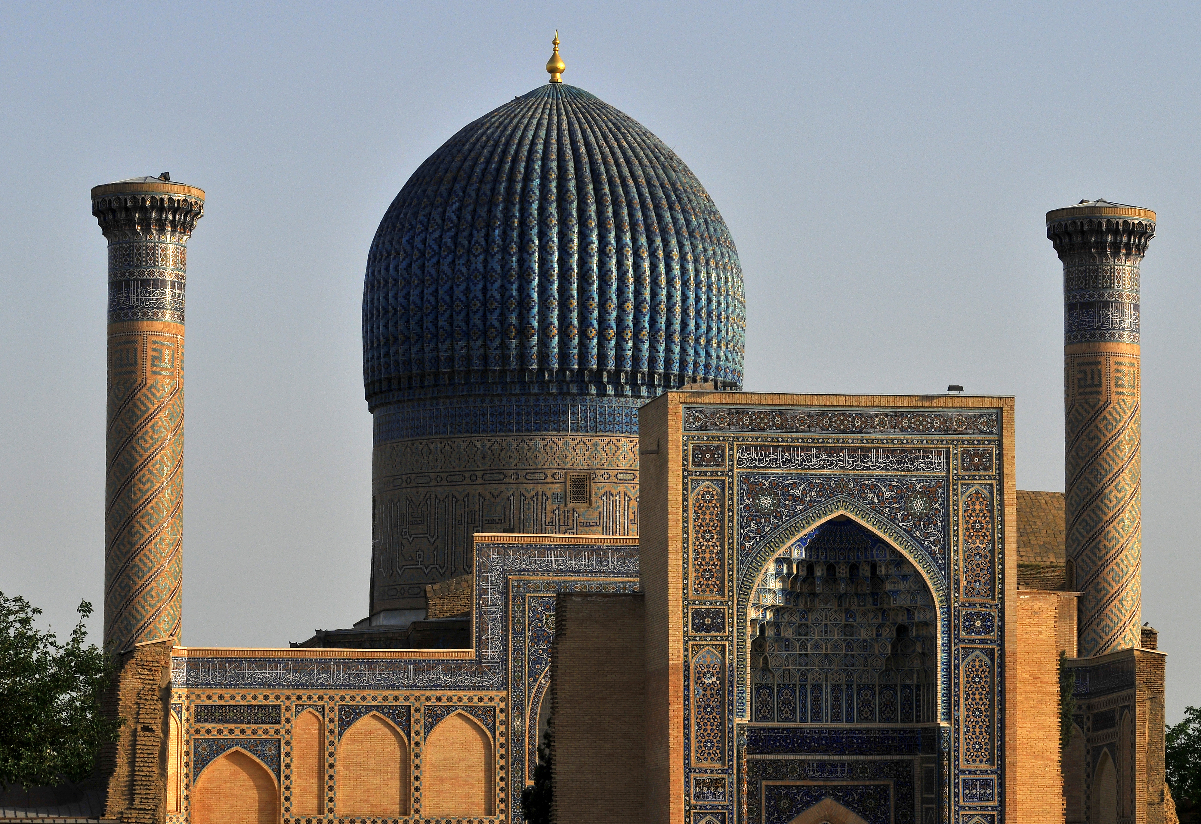 Timur Lang mausoleum [Gur-e Amir]. Samarkand, Uzbekistan